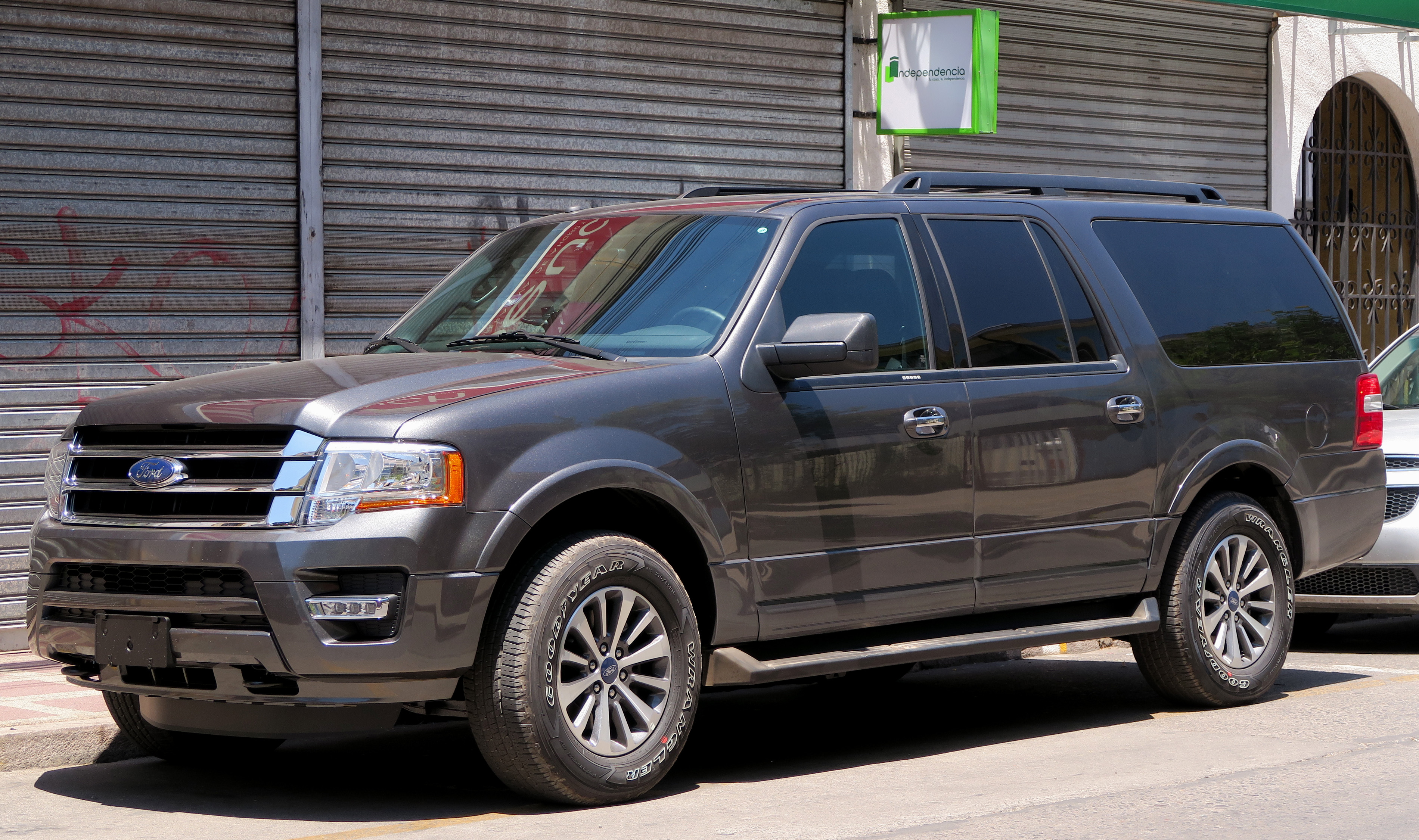 Ford Expedition EL XLT 3.5 EcoBoost 2017